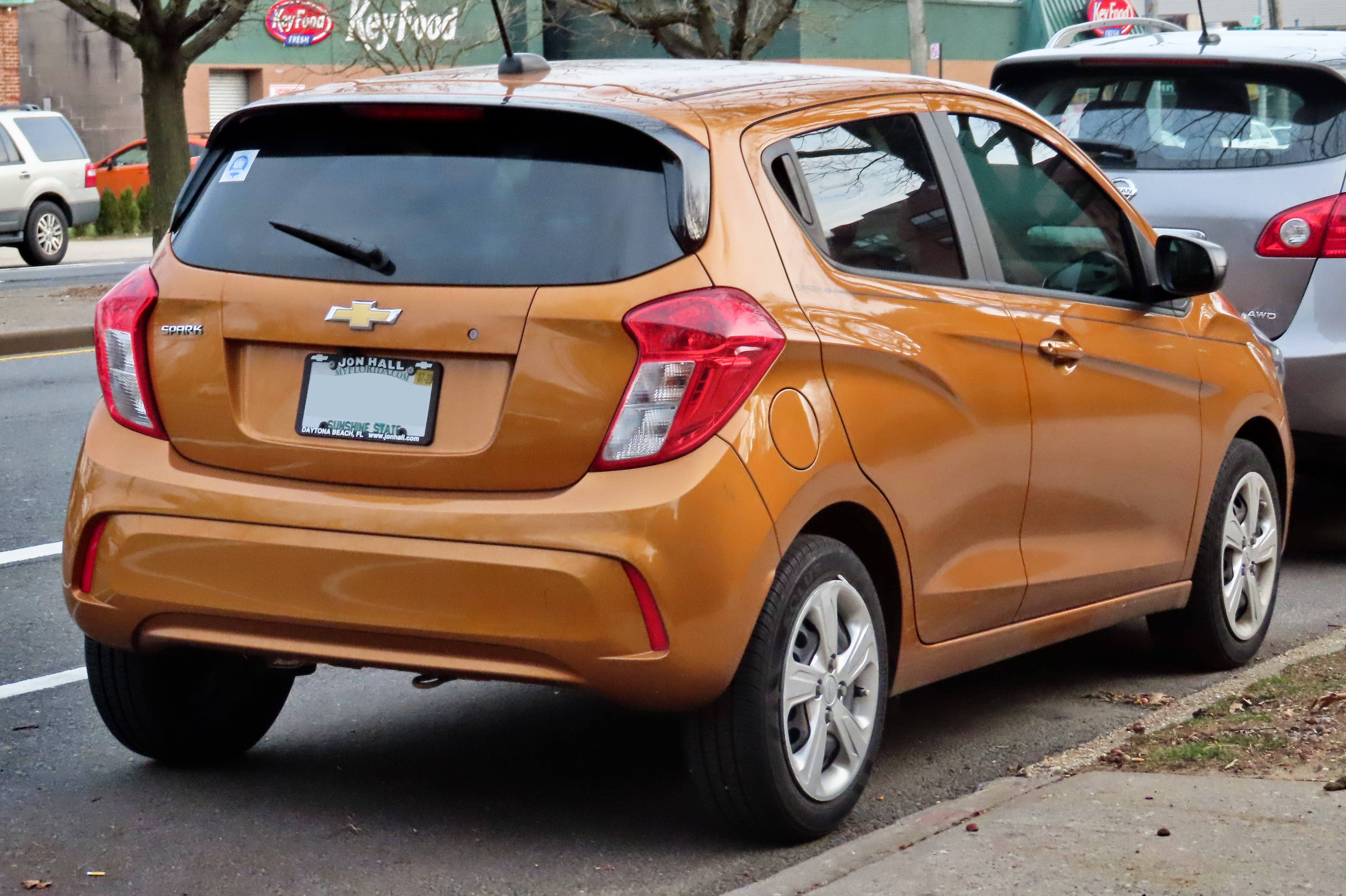 A 2019 Chevrolet Spark LS photographed in Pomonok, Queens, New York, USA